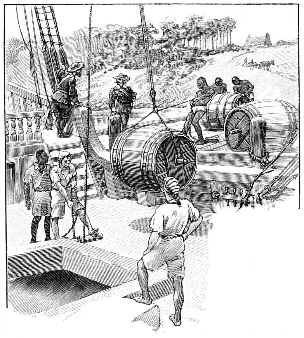 Illustration captioned "Loading a Cargo of Tobacco" from the 1910 edition of The Leading Facts of American History, used to illustrate the section on Virginia tobacco agriculture.